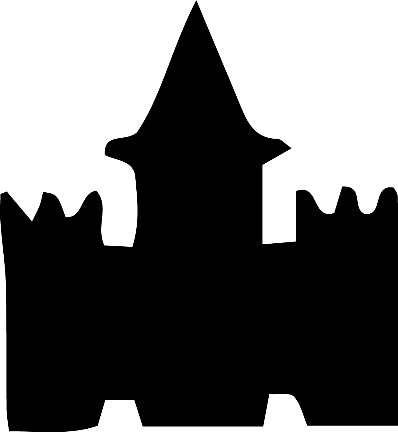 Symbol of the Adventures in Hogwarts expansion of the Harry Potter Trading Card Game